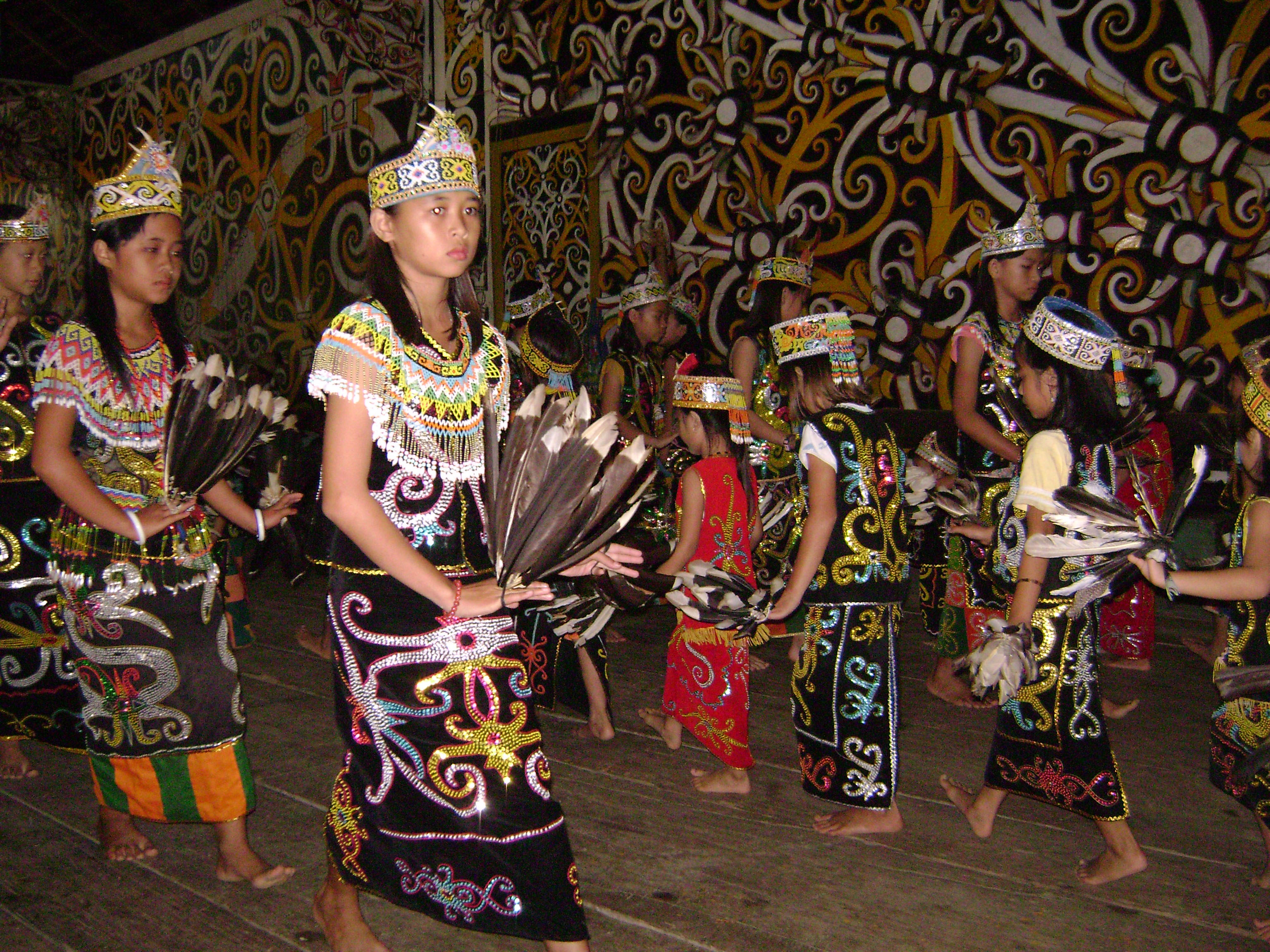 This photo was captured in Jan, 2007 on a Yemeni delegation ceremony.